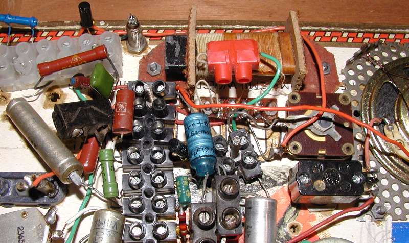 Discreet experimental setup with screw terminals and a solder bar (top center) - from the 1960s.